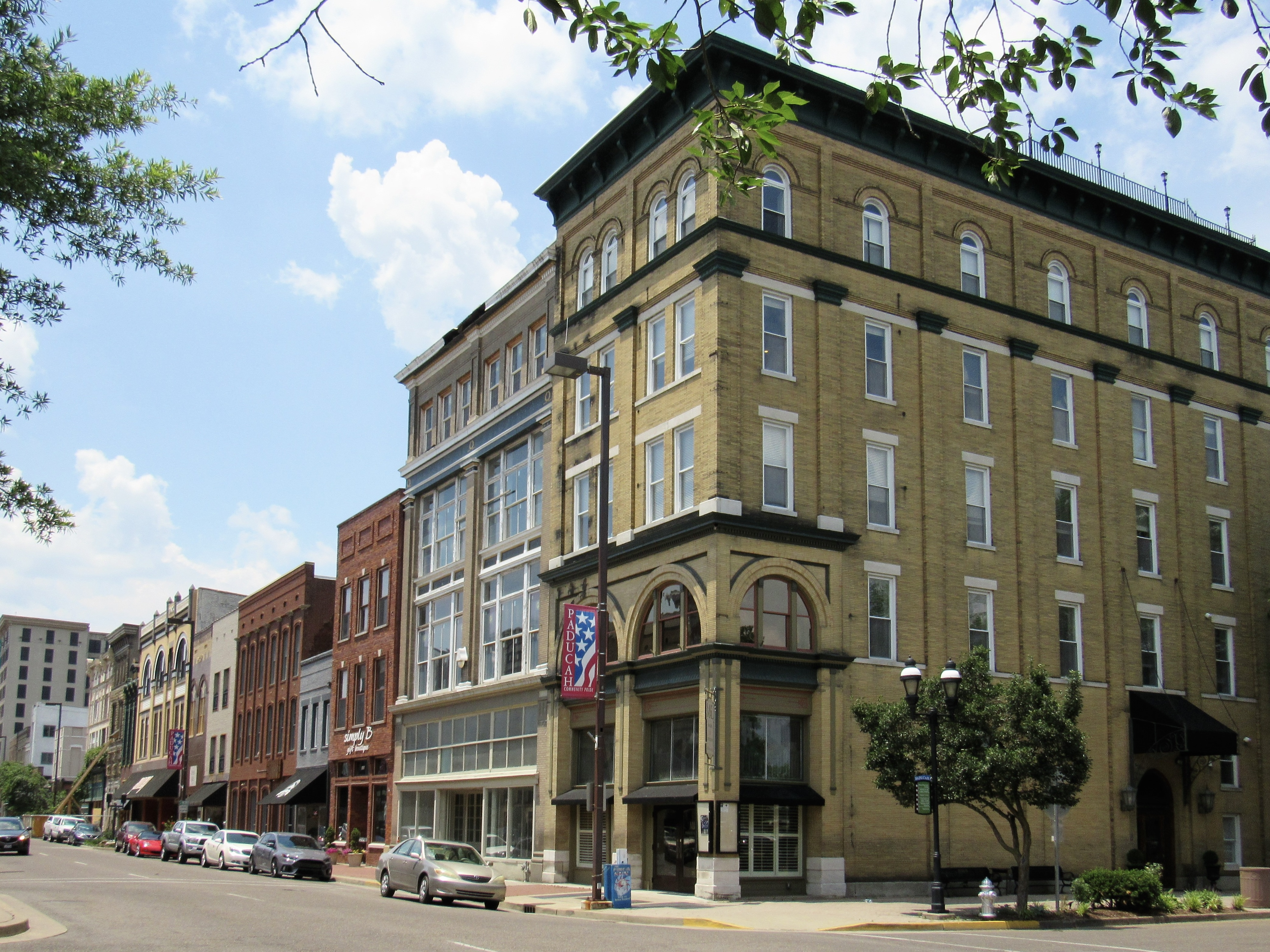 Buildings on Broadway in Paducah, Kentucky.